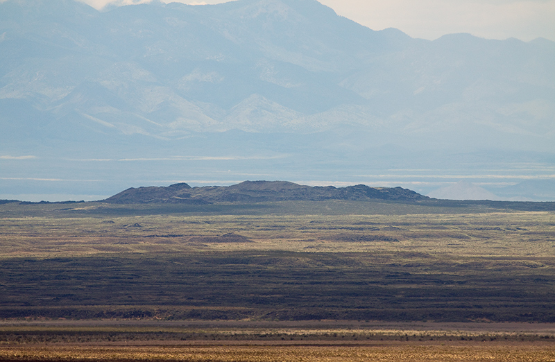 Looking north towards the Jornada del Muerto Volcano, New Mexico, USA.